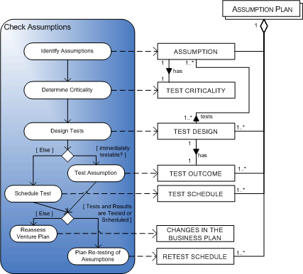 Image depicts the Assumption Based Planning process in general, as described in the Wikipedia entry.